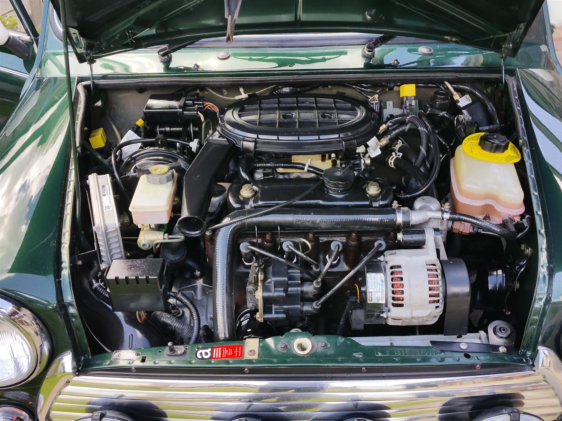 A series in MPi form